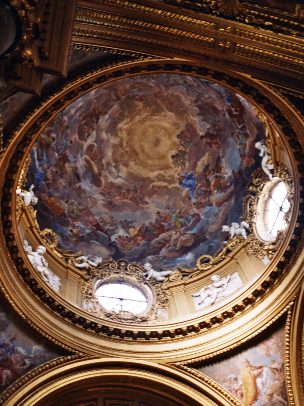 Description: Interior view of the royal chapel in the Palacio Real de Madrid in Madrid. Source: Self-made, I release it into the public domain.